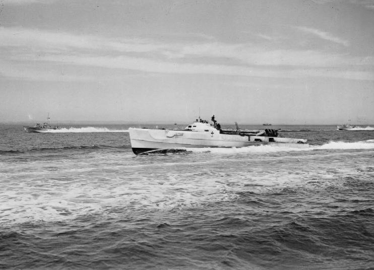 A surrendered German Schnellboot ("E-boat") doing 30 knots with two other E-Boats (not visible) alongside an accompanying MGB heading to HMS Hornet, the light coastal forces base at Gosport, Hampshire (UK), to be taken over by the Royal Navy.